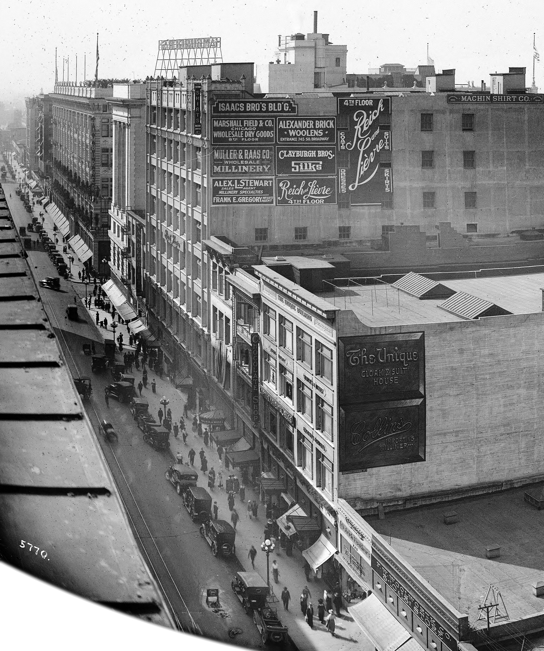 Broadway south from Seventh St. towards Hamburger's, 1917